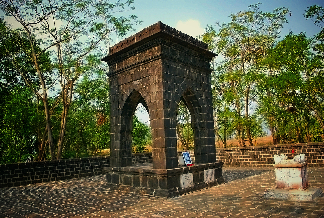 Jijamata's Samadhi consisting of four towers.